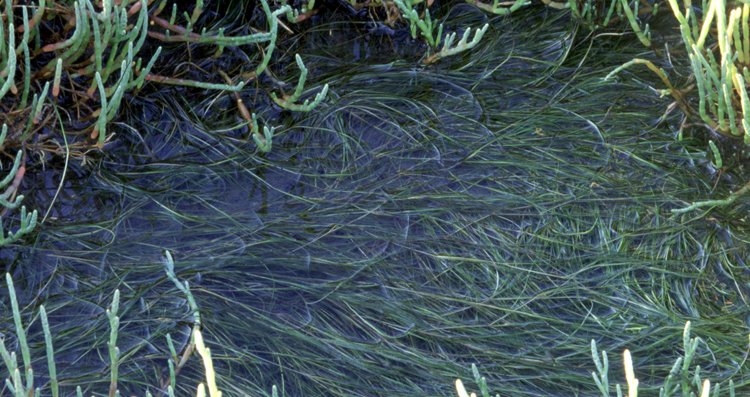 Ruppia maritima at Humboldt Bay National Wildlife Refuge Complex, California, USA